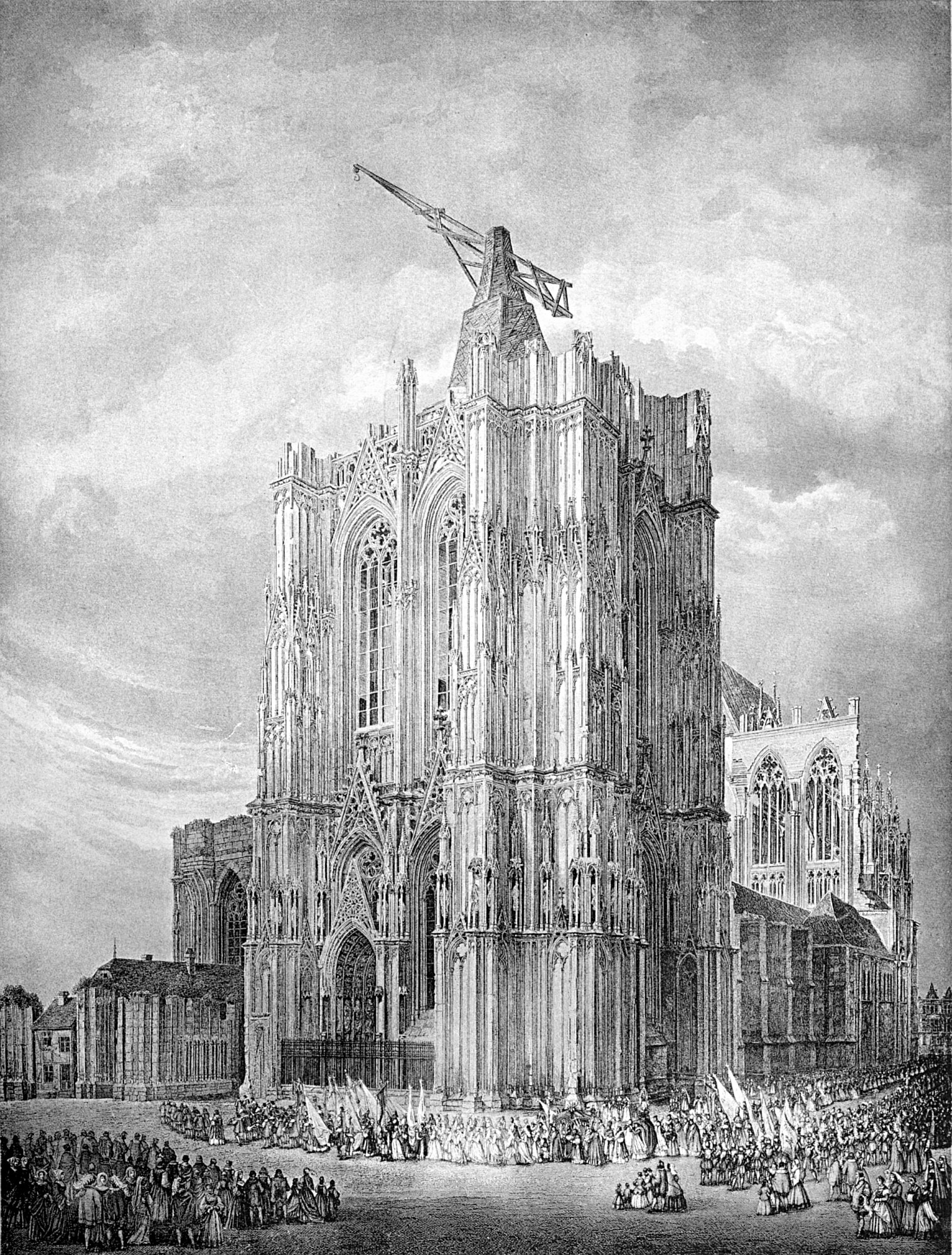 This is a scan of the historical document